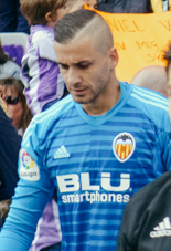 Real Valladolid - Valencia C. F., 38th fixture of the 2018-19 La Liga, May 18, 2019.